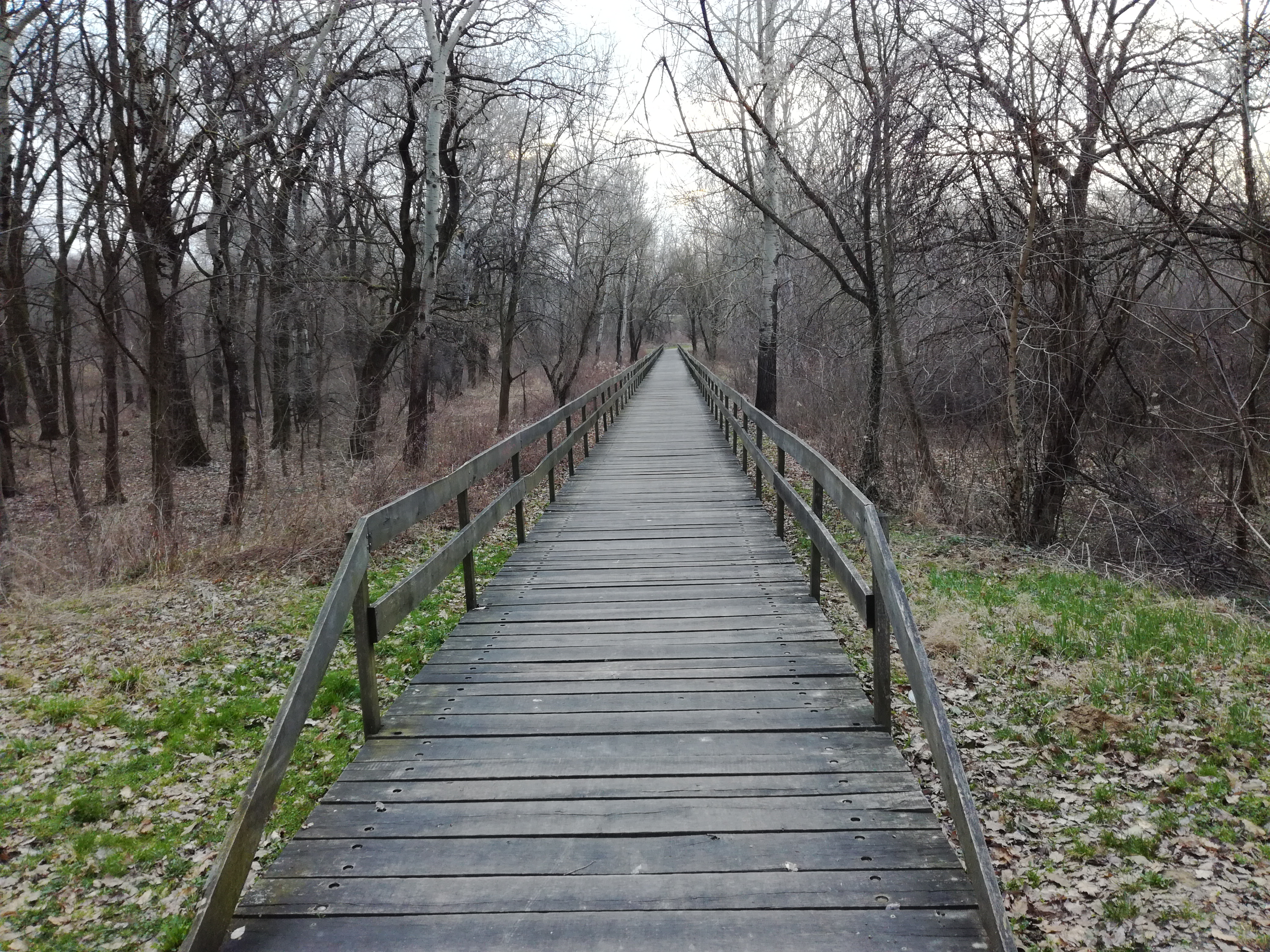 Wooden bridge in Adica park near Vukovar, Croatia